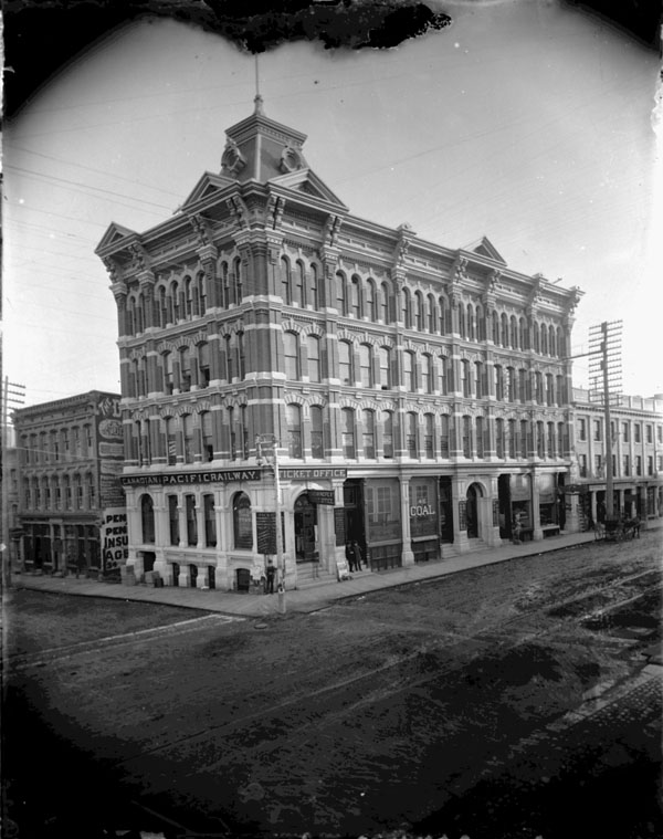 C.P.R. (Canadian Pacific Railway) Office located on the corners of Sparks and Elgin Streets. On the left : Bell Block No date is given with this photo.